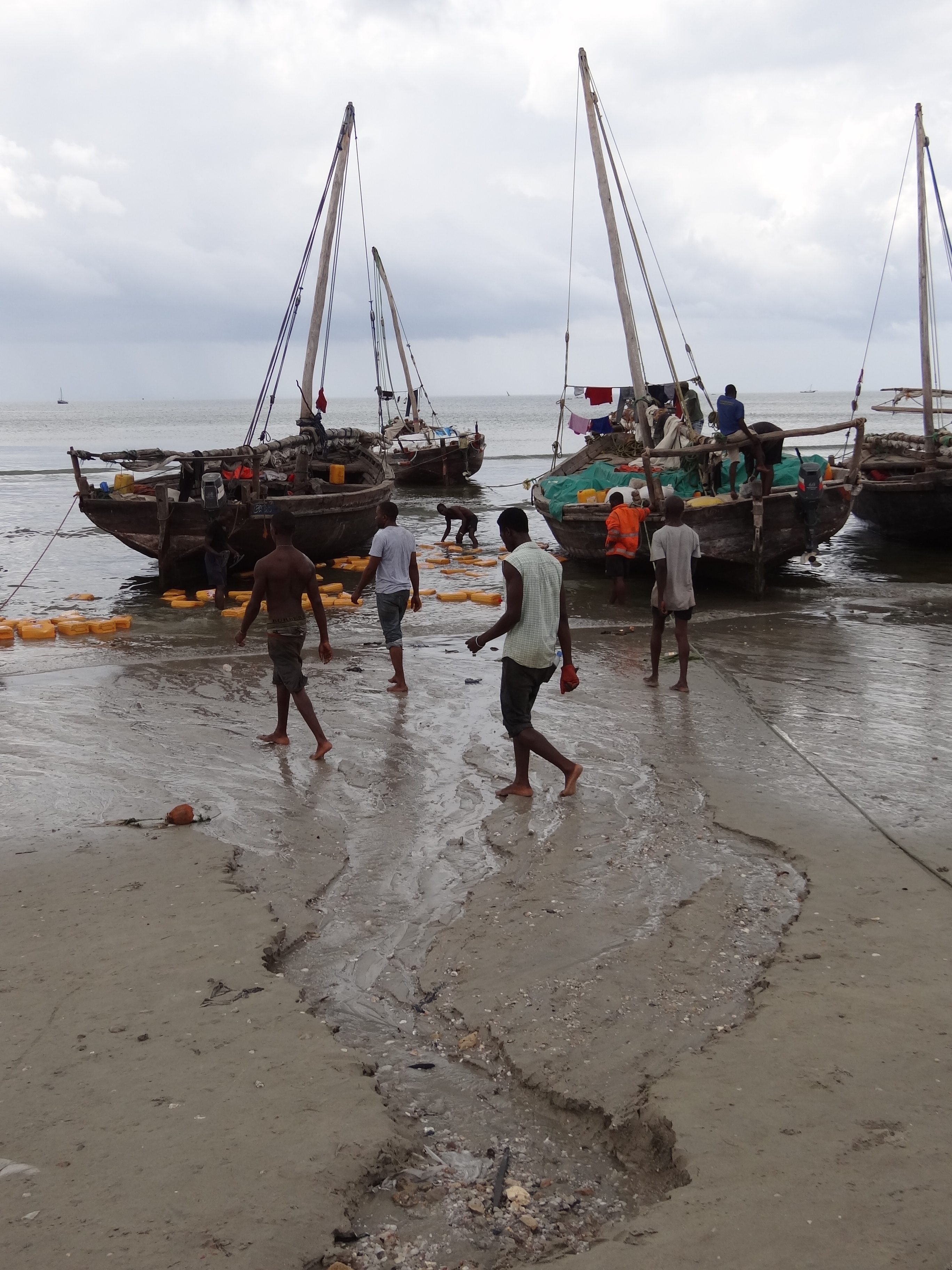 Dhows and Fishermen - Bagamoyo - Tanzania